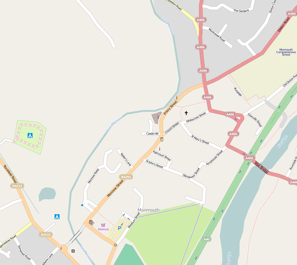 Monmouth street map 51.8245 51.793 -2.7406 -2.6914